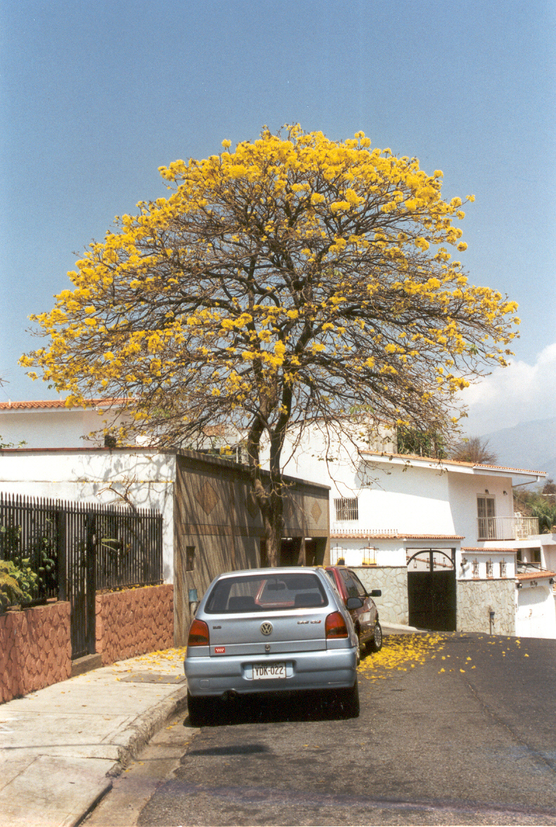 Araguaney in flower (Tabebuia pentaphylia). National tree of Venezuela. Caracas. Author: Fev. Date: February 2005